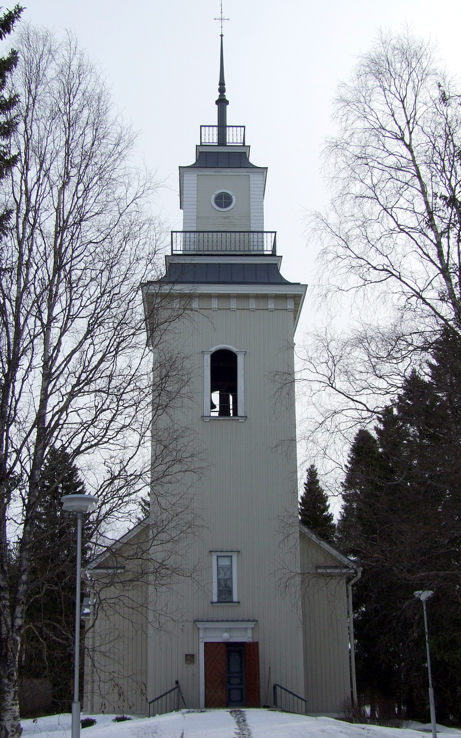 Yli-Ii church. It was designed by Yrjö Sadeniemi and built in 1932.